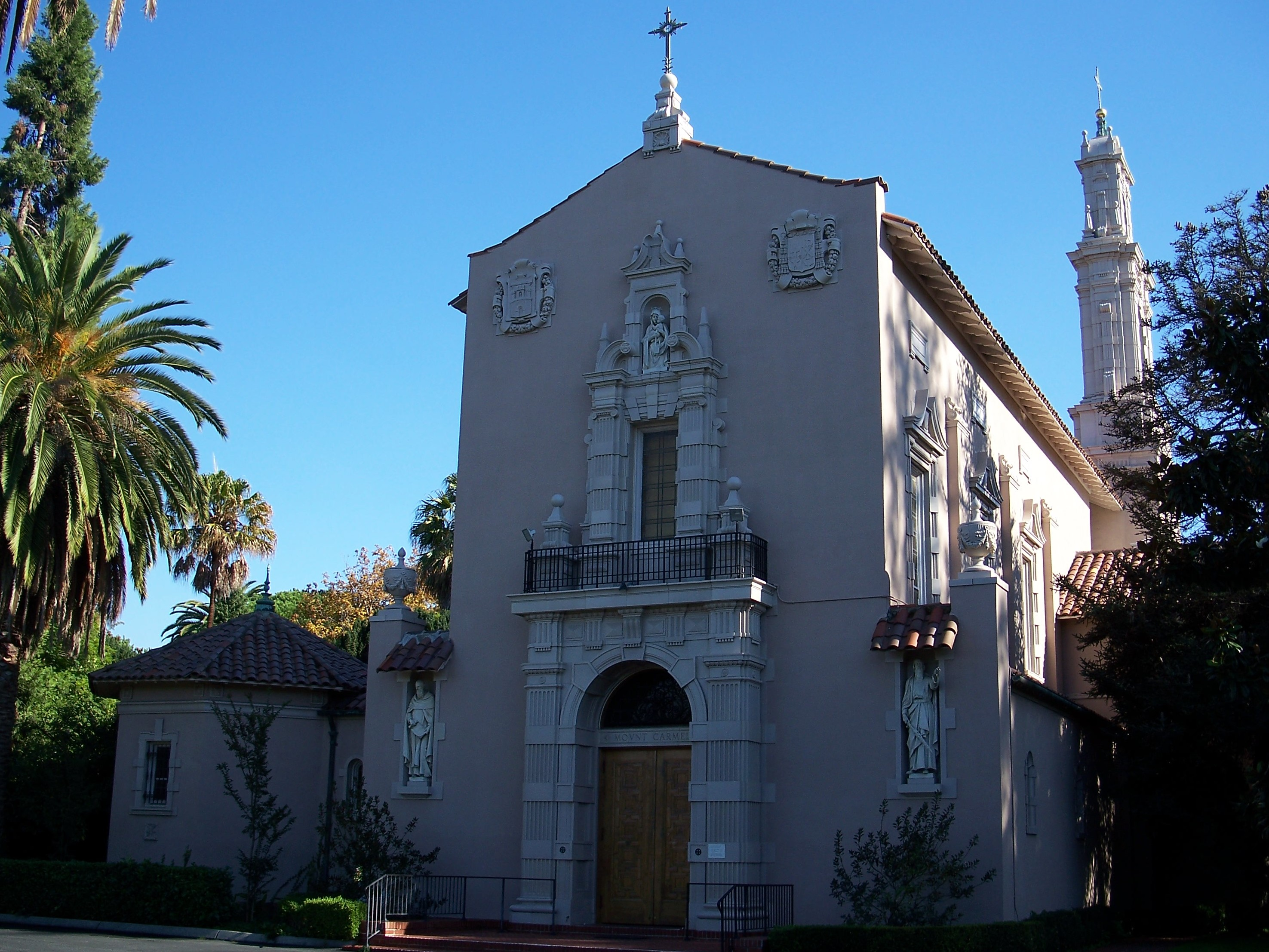 Carmelite convent. Santa Clara, California, USA More details about subject